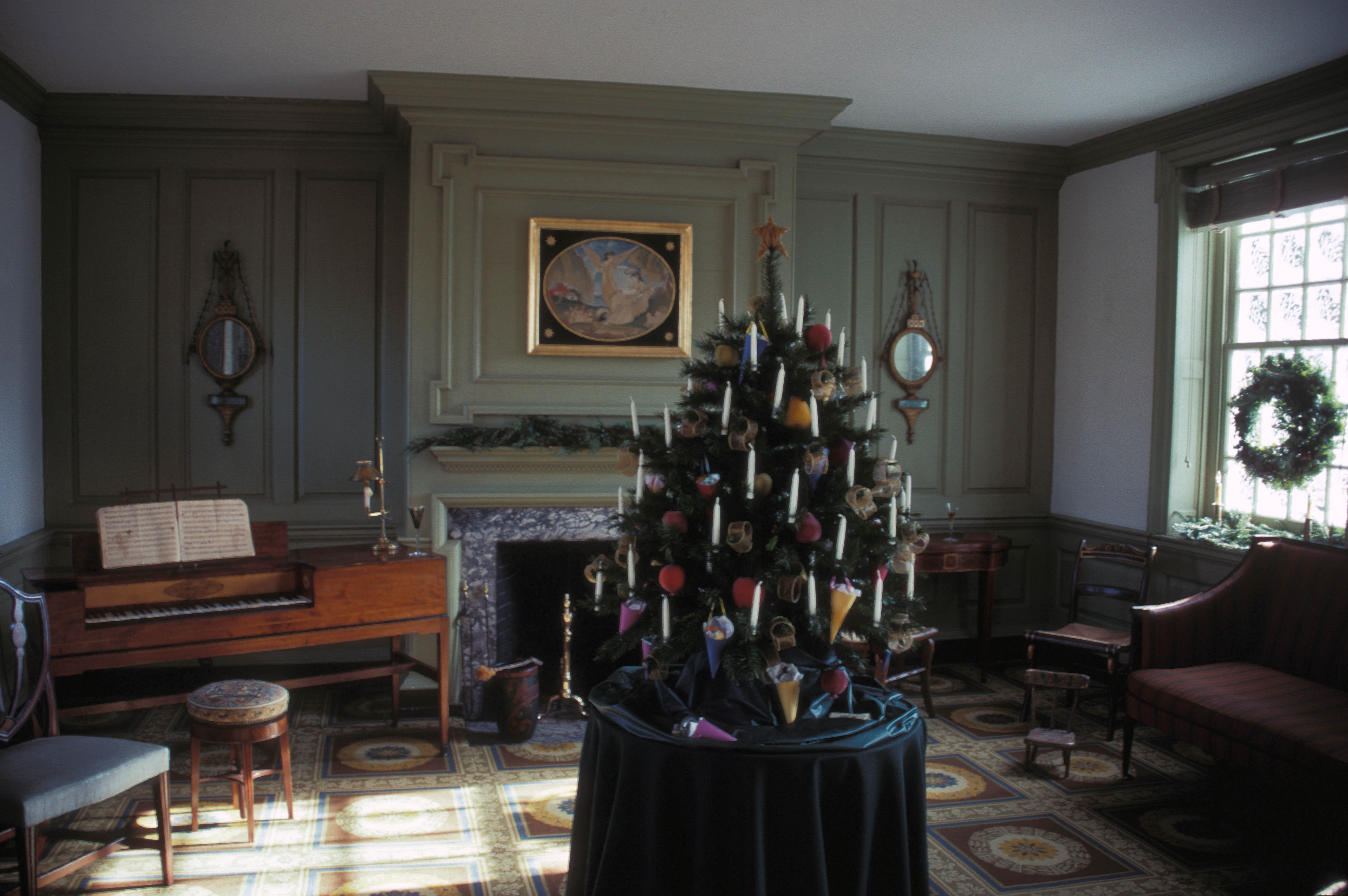 HOUSE DECORATED FOR CHRISTMAS